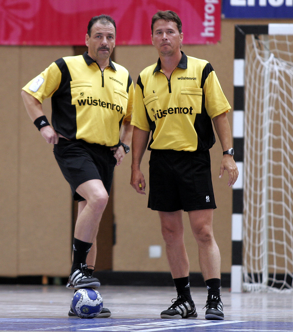 Germanys best handball referees: Frank Lemme (right) and Bernd Ullrich (left), during the Schlecker Cup 2007 in Ehingen (Germany)